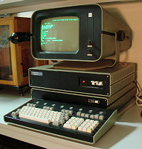 DVK: USSR made PDP-11 compatible computer with 15IE-00-013 display terminal